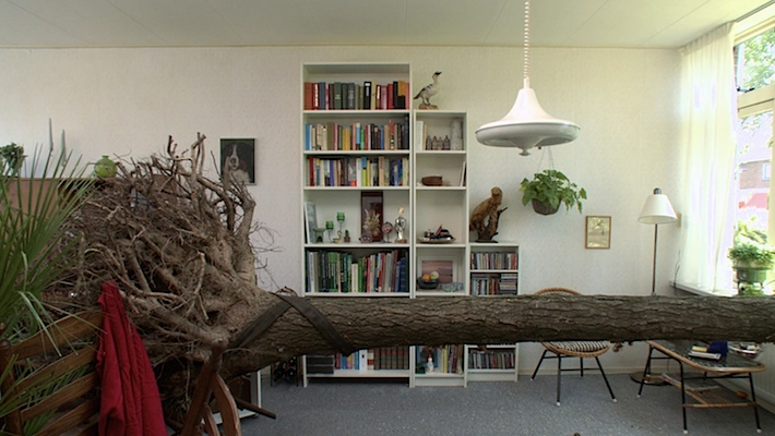 Video still from the video installation The Living Room by Dutch visual artist Roderick Hietbrink